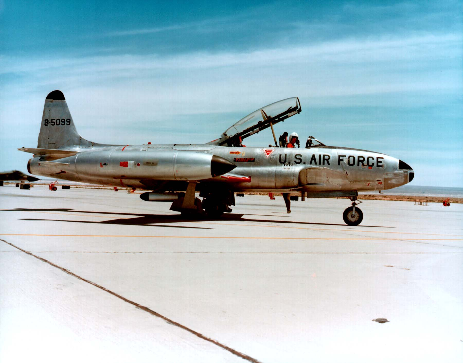 A Lockheed T-33